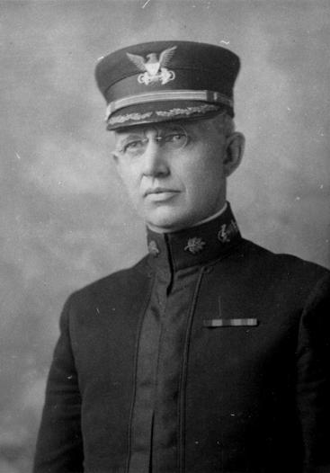 1898, photo of Detlef Frederick Argentine de Otte entered the Revenue Cutter Service Academy in 1889 and graduated in 1891. Photo pre 1923, therefore copyright laws of 1923 do not apply